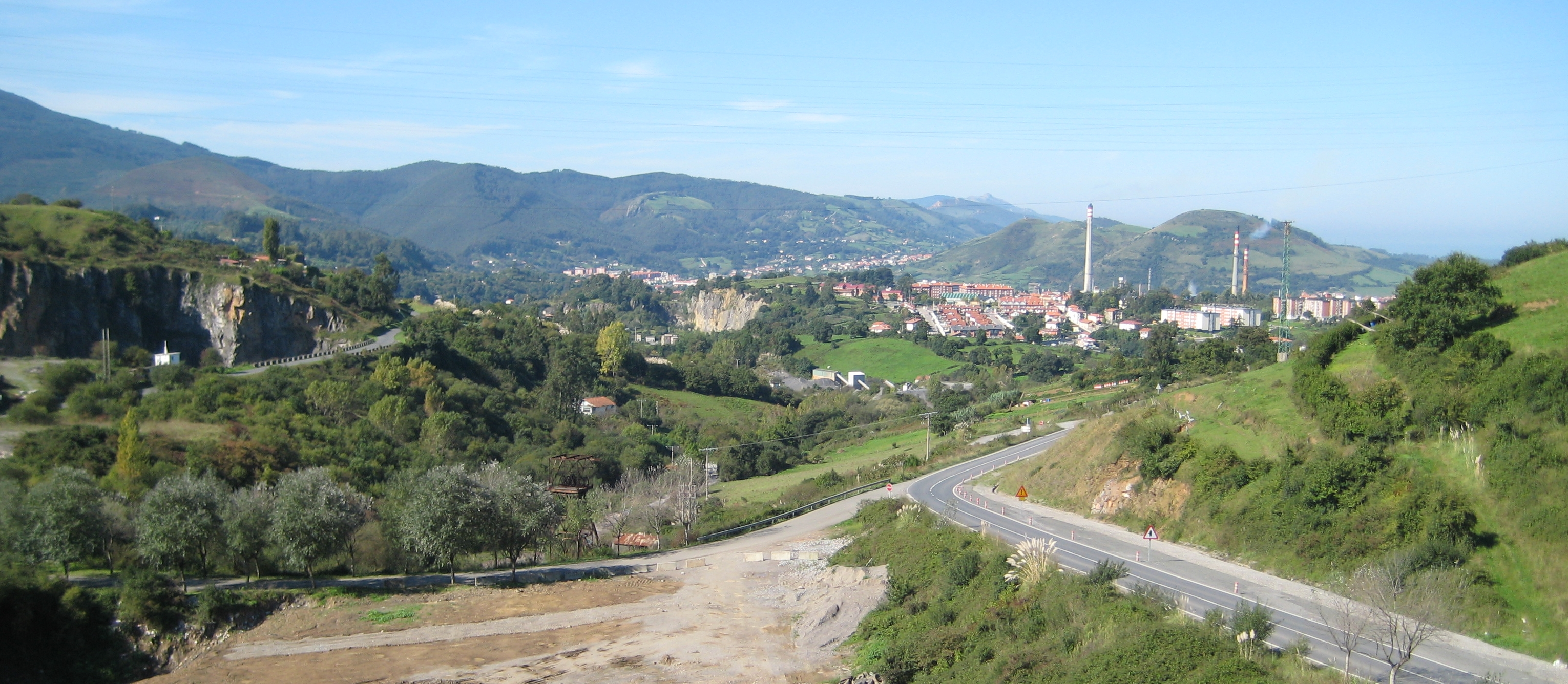 View of part of Abanto and Muskiz (Valley of Somorrostro) fromo El Campillo, Gallarta, Abanto